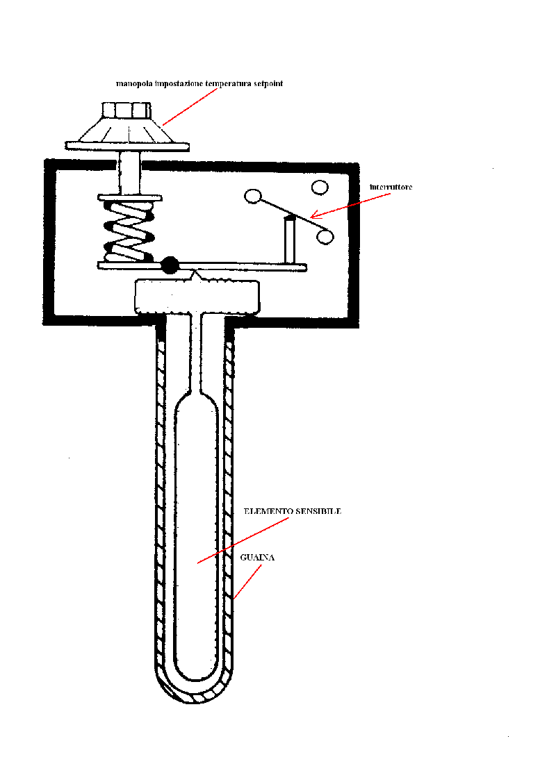 Dilation thermostatic valve